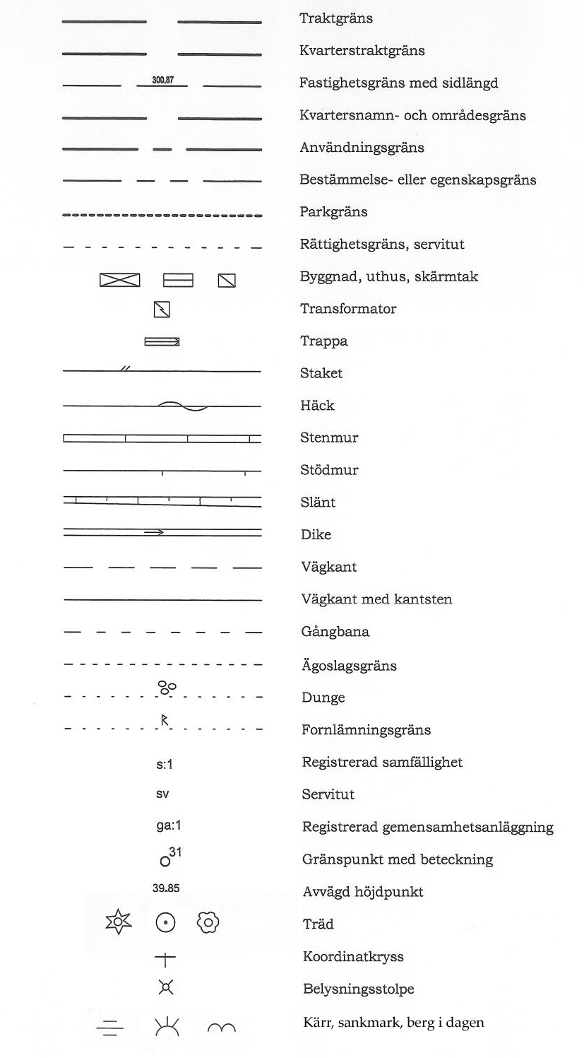 Base map, a set of symbols